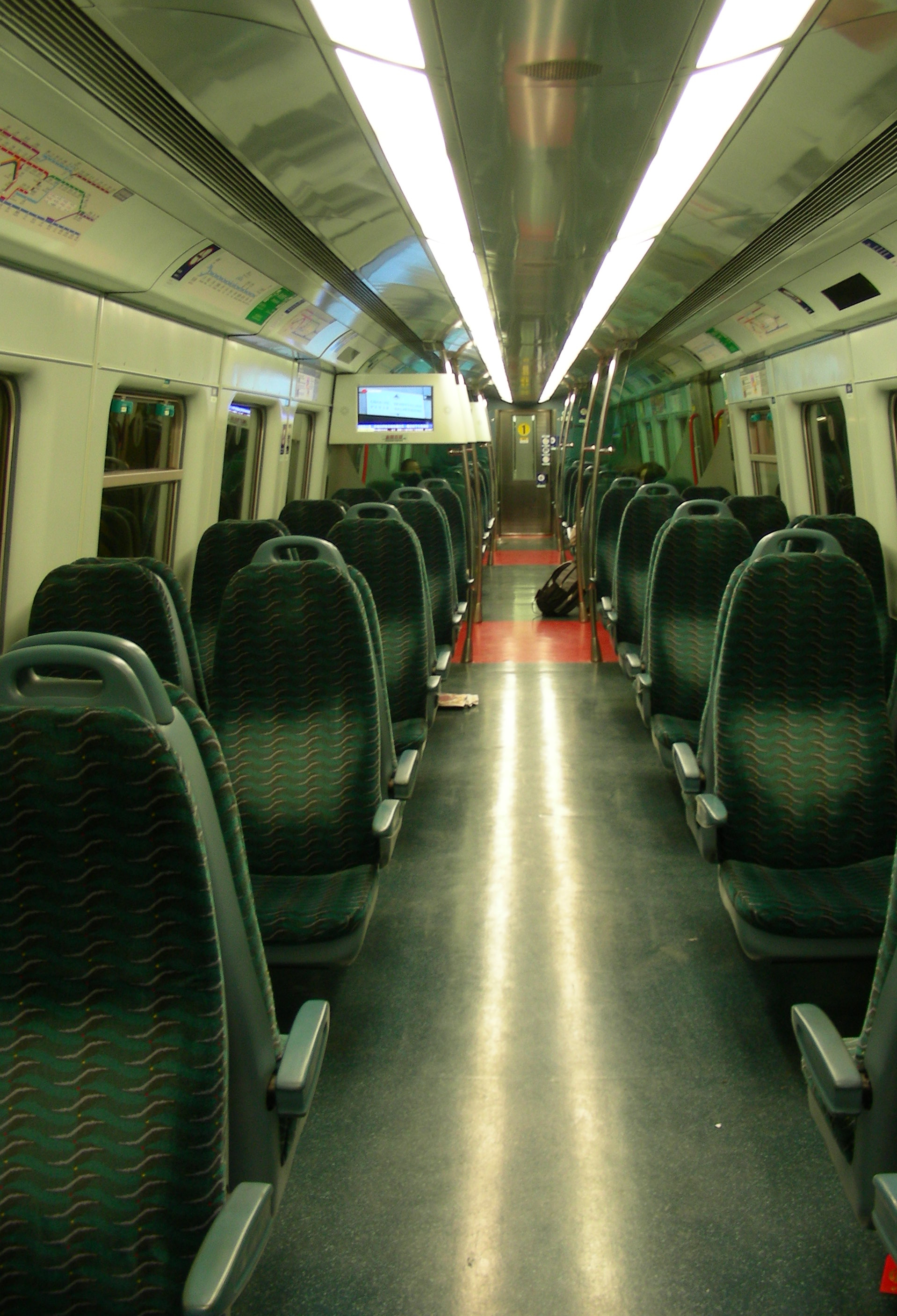 KCR Mid-Life Refurbished EMU First Class compartment